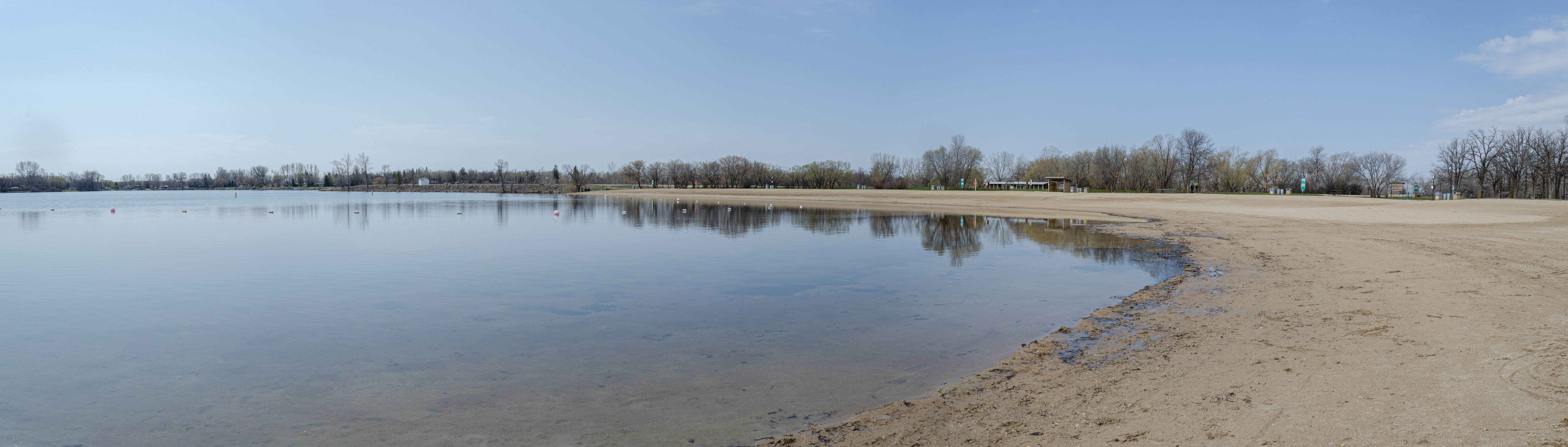 St. Malo Provincial Park Beach is centered around a reservoir.